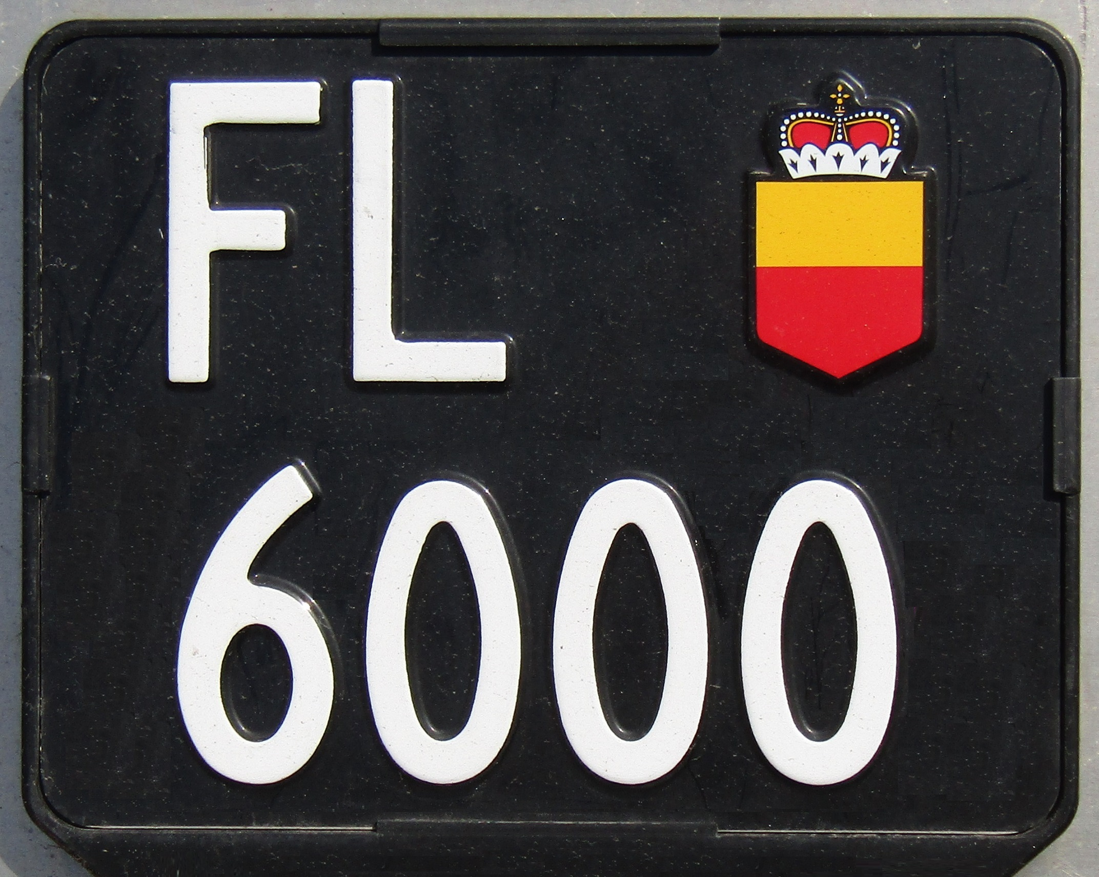 Liechtenstein license plate for motorcycles, microcars, trikes and quads (18 x 14 cm), highest number (18-05-2020)